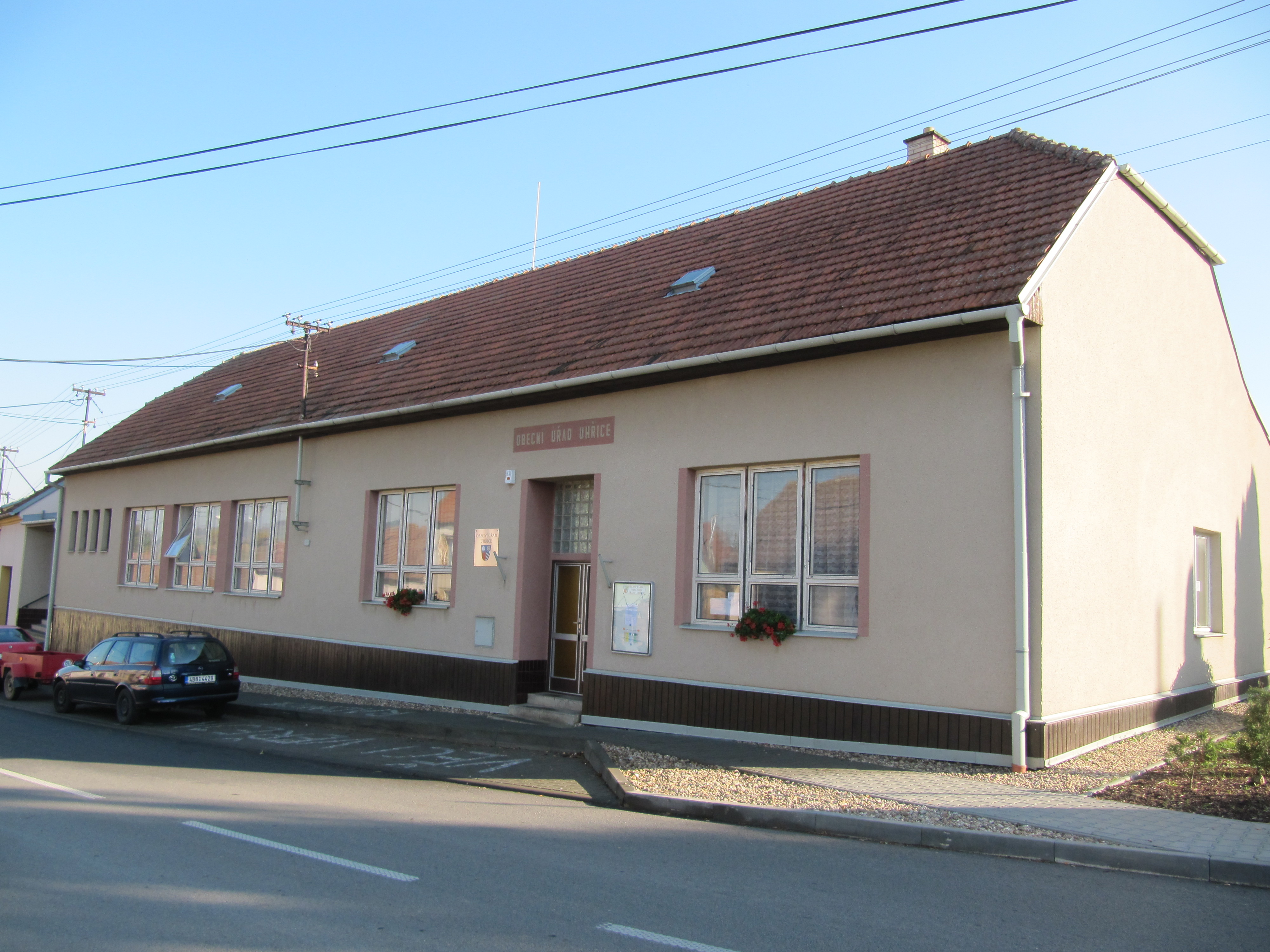 Uhřice in Vyškov District, Czech Republic. Municipal office.